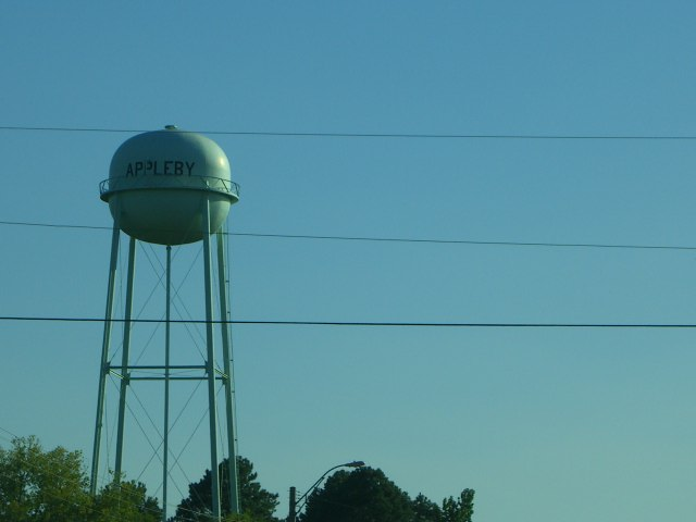 Created by Nick Juhasz|.